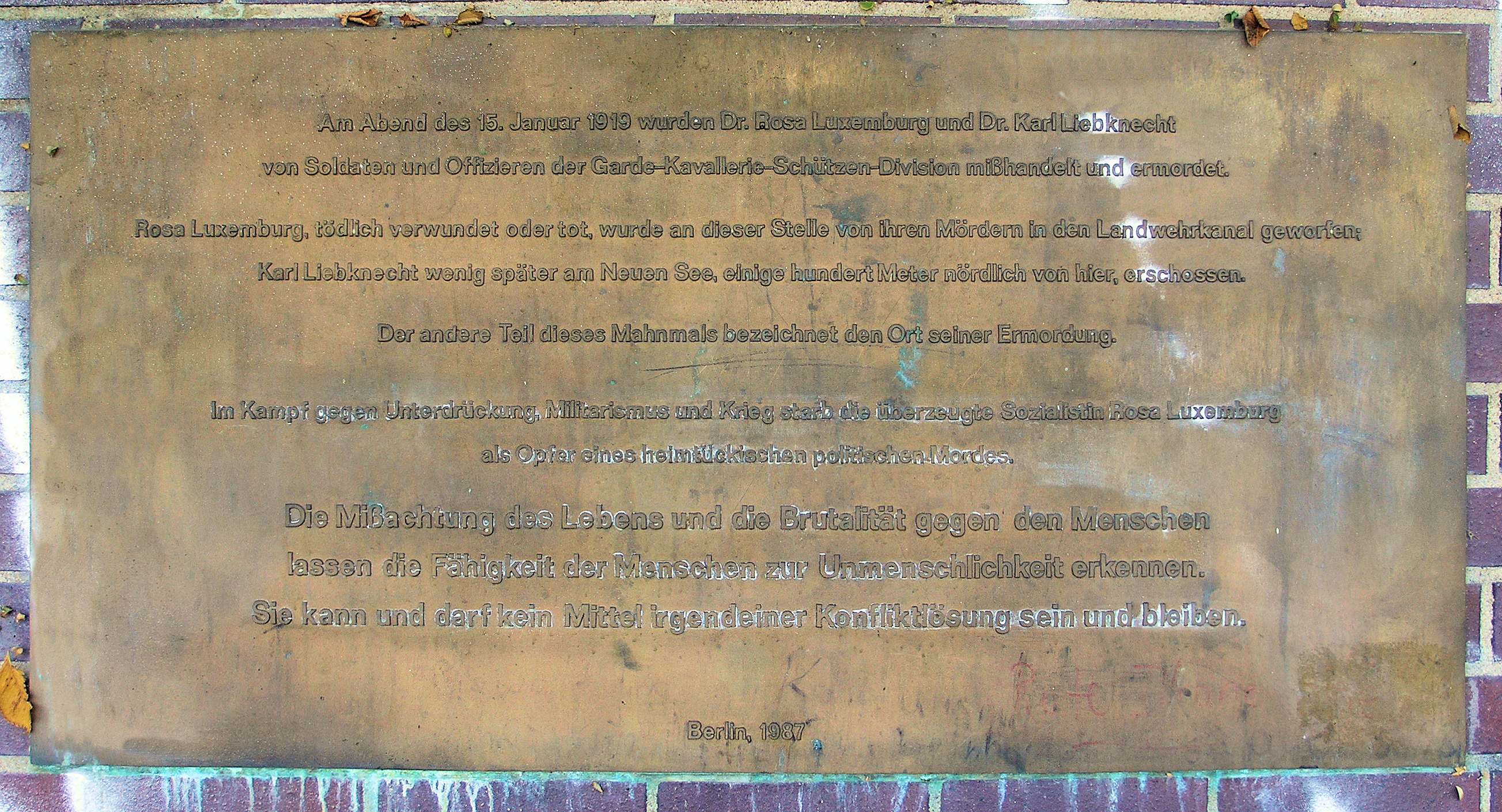 Memorial plaque, Rosa Luxemburg, Katharina-Heinroth-Ufer , Berlin-Tiergarten, Germany